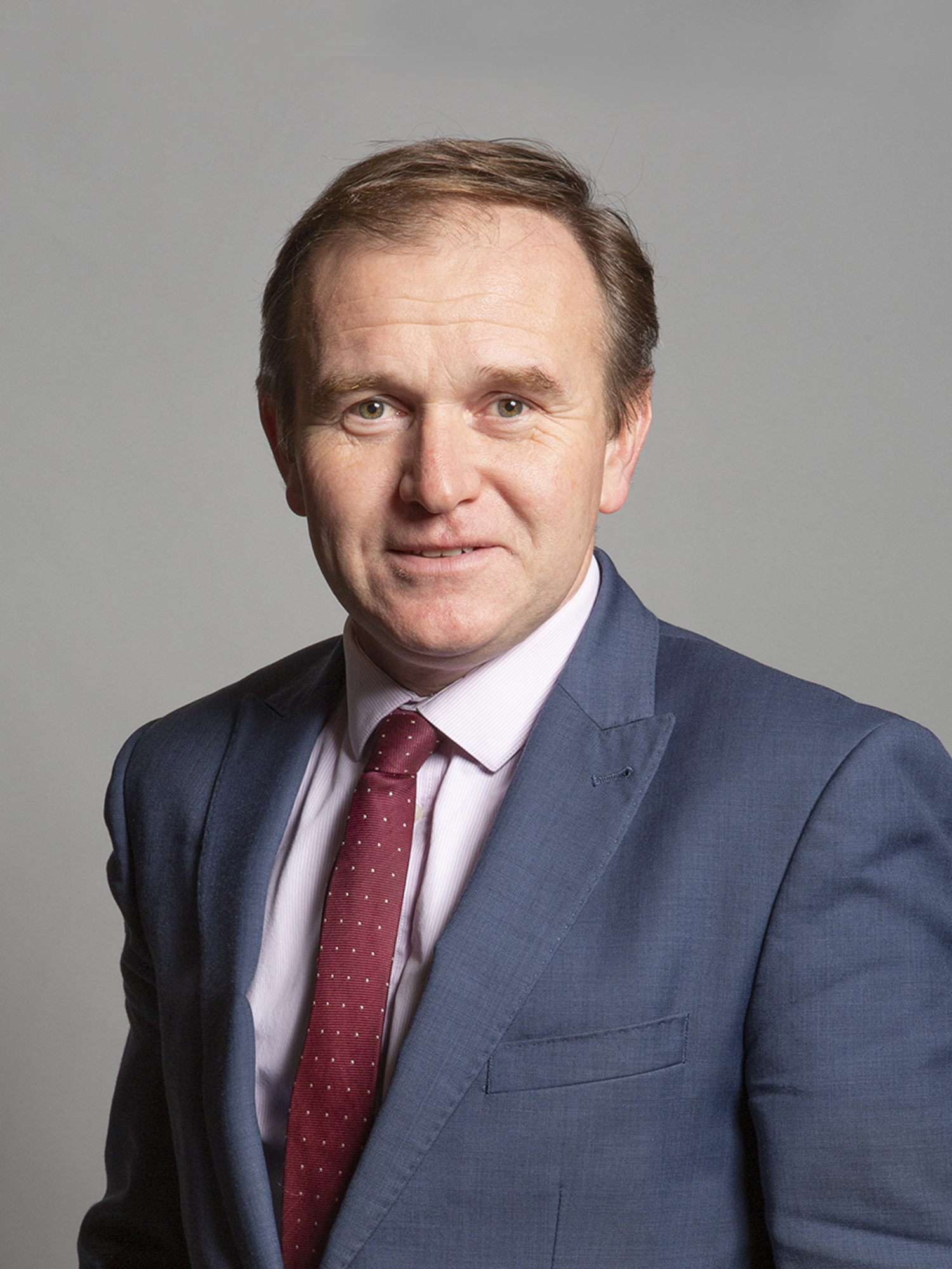 Official portrait of George Eustice MP 3×4 portrait of George Eustice